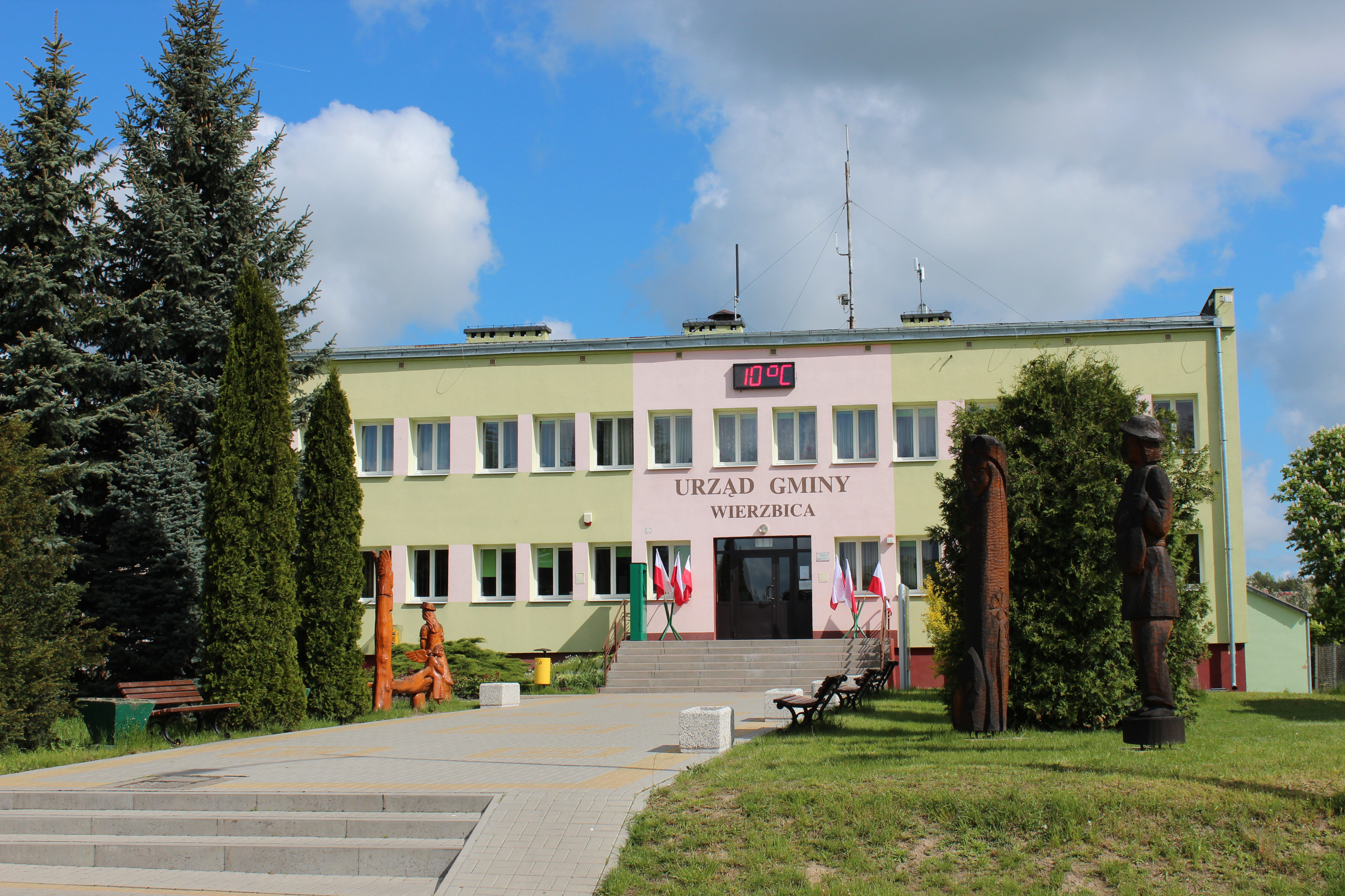 Wierzbica - municipal office